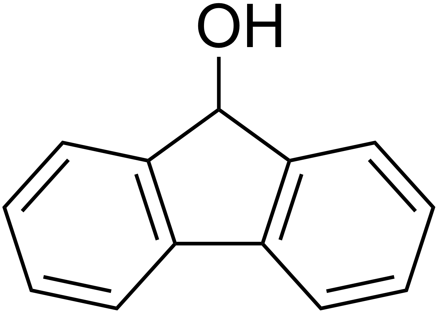 chemical structure of 9-fluorenol